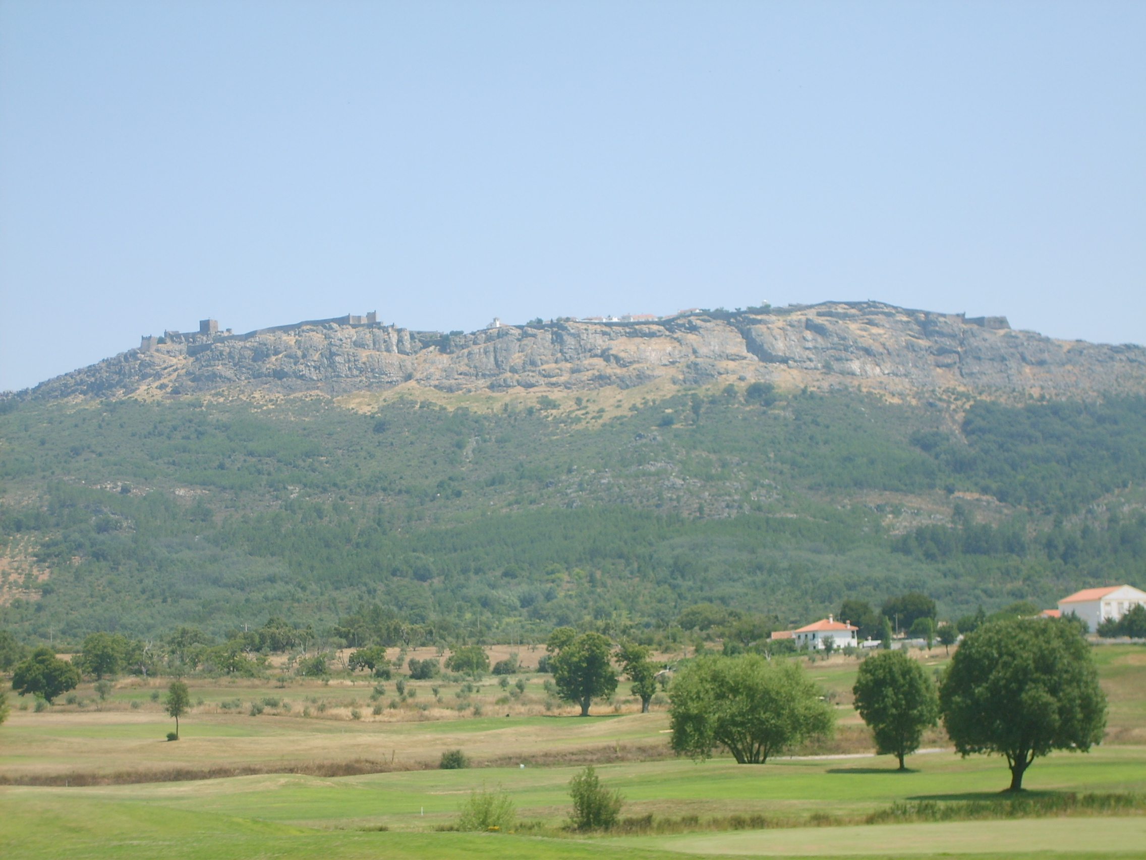 Marvão taken from the valley on July 8th 2006 by user:Martin253